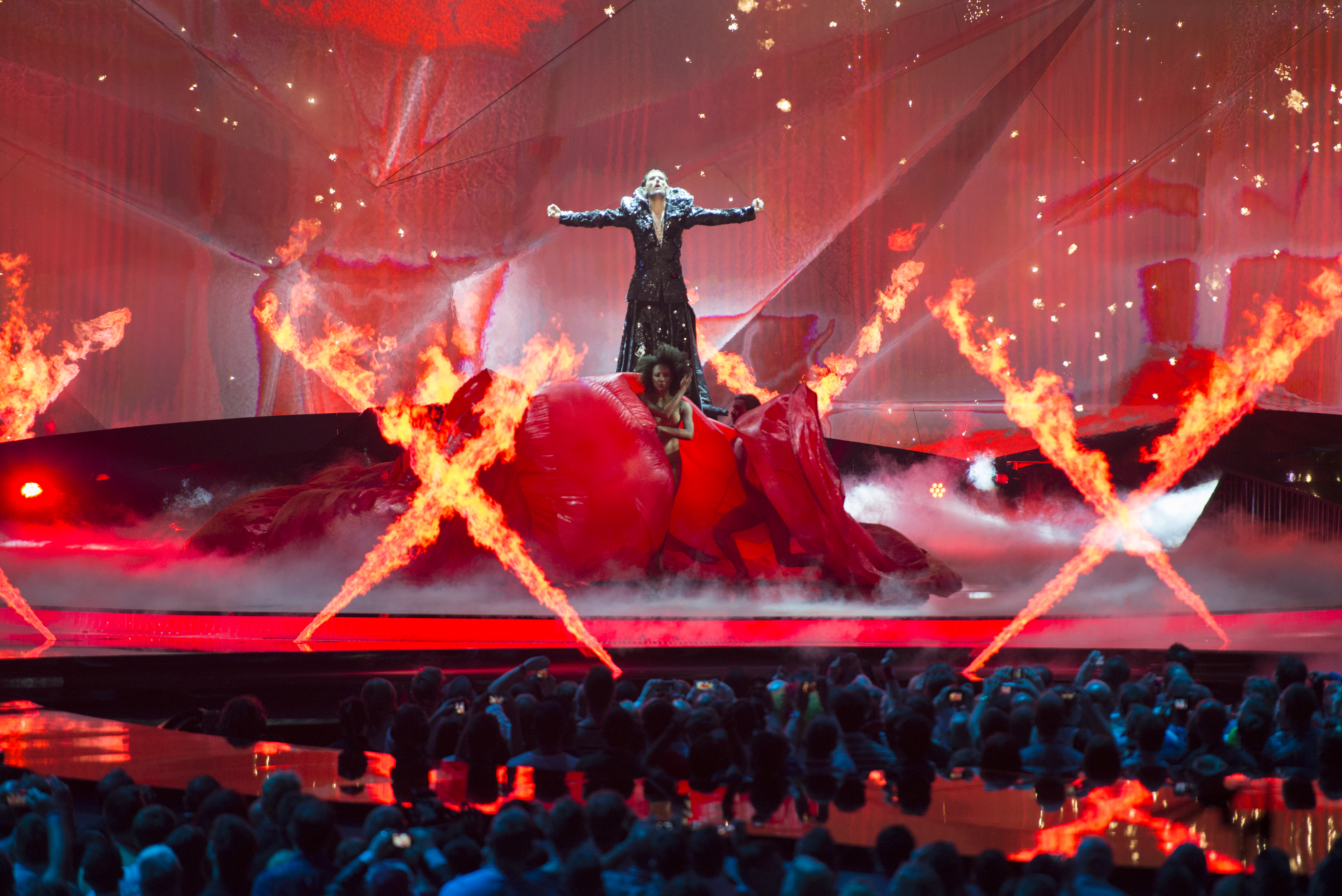 Cezar representing Romania with the song "It's My Life" during the second dress rehearsal of the second semi final of the Eurovision Song Contest 2013 in Malmö. (Help translate this text)